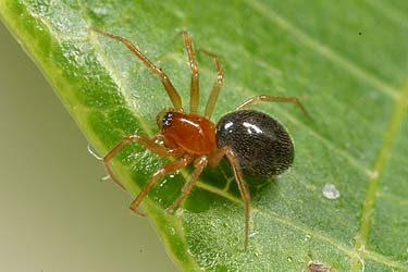 female Hylyphantes tanikawai from Okinawa.